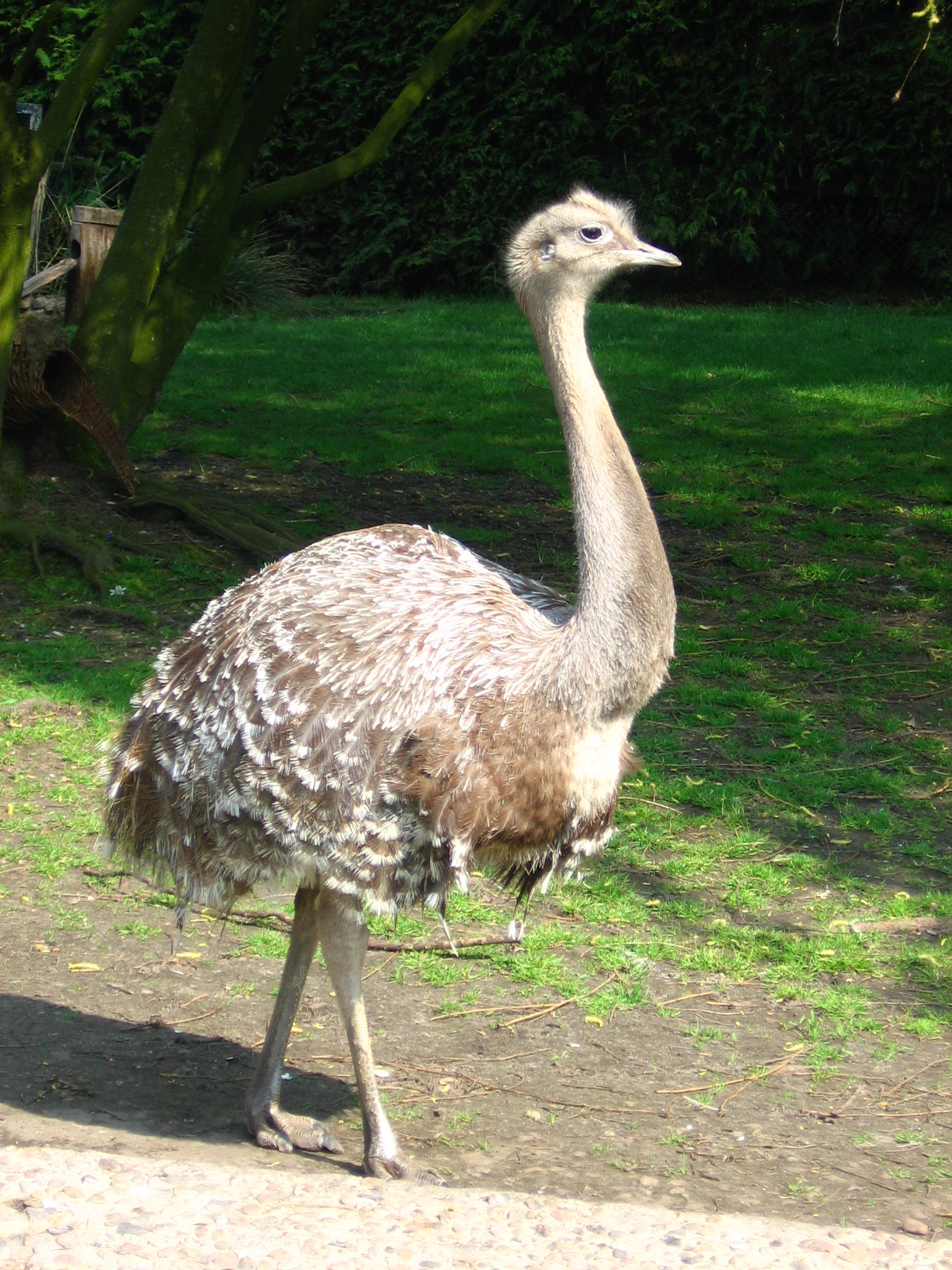 Darwin's Rhea (Pterocnemia pennata, former Rhea pennata), Vogelpark Walsrode